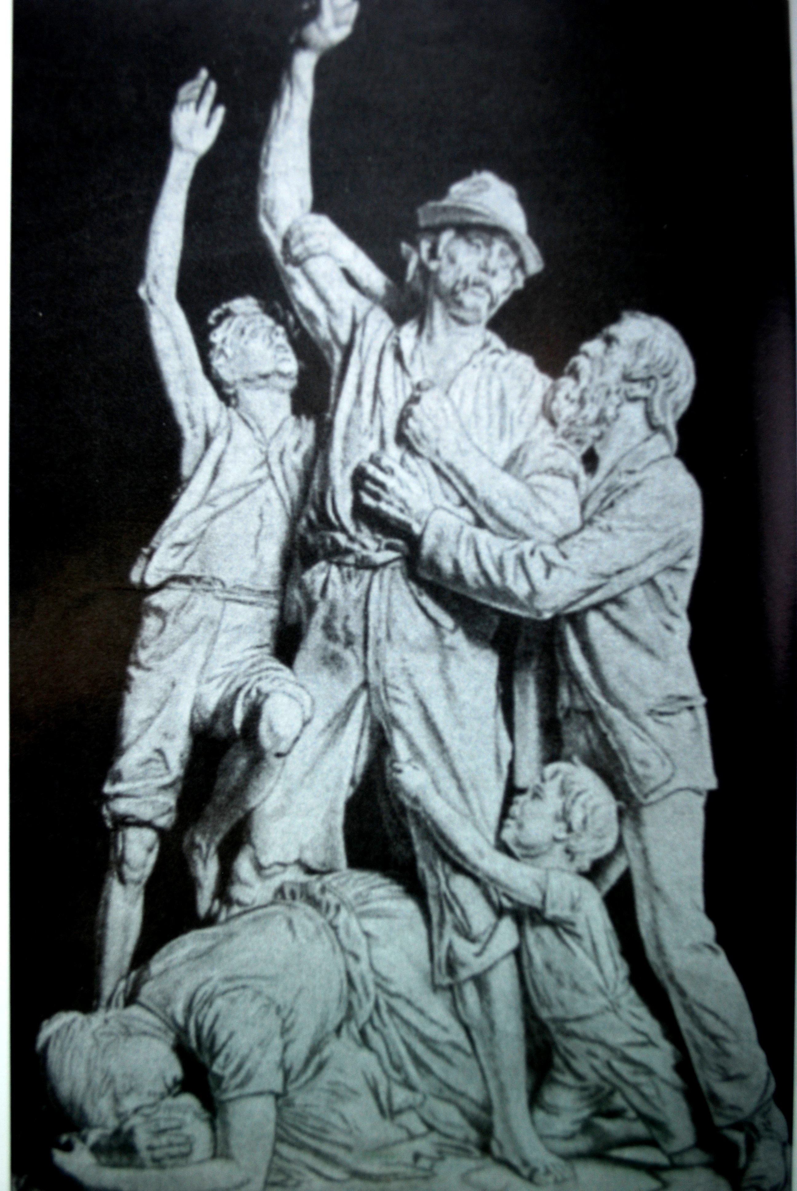 Sculptor Johannes Gelert: The struggle for work (1893)